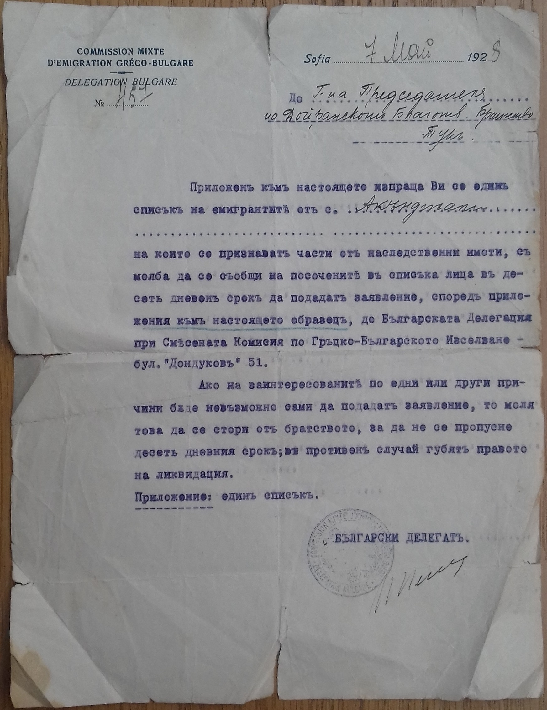 Joint Greek-Bulgarian Emmigration Committee Document 7 May 1929